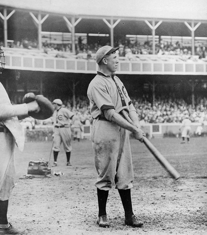 [Patrick Joseph Moran, Chicago NL baseball player, standing at home plate with bat in hand during baseball game]